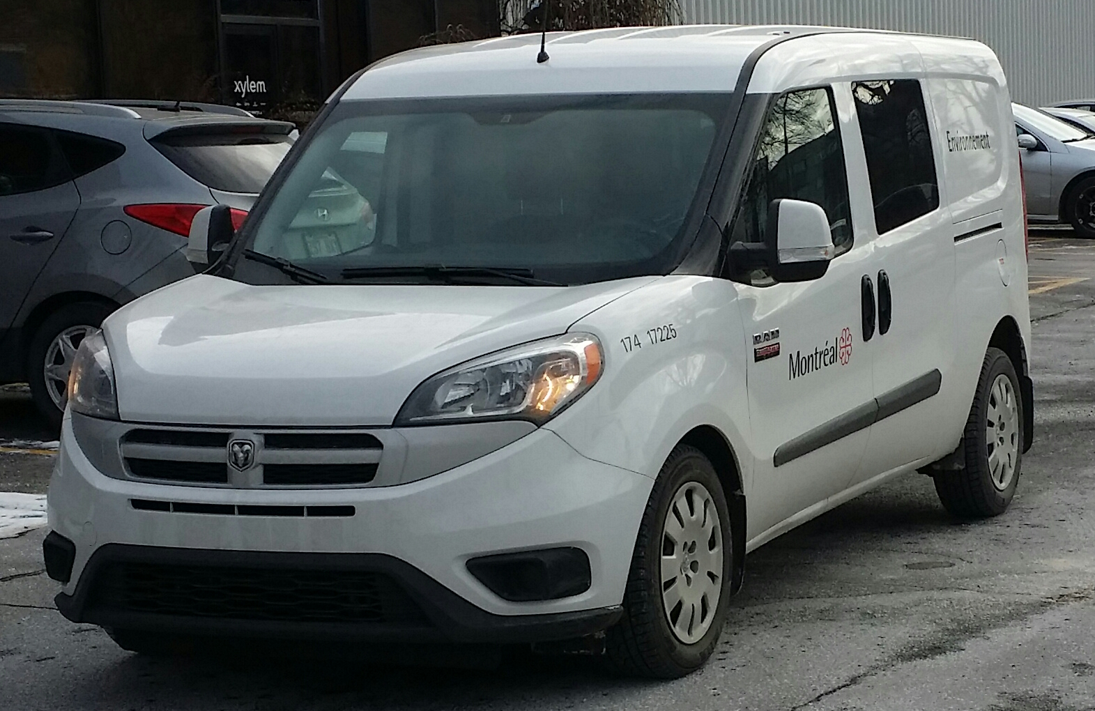 Ram ProMaster City photographed photographed in Pointe-Claire , Québec, Canada with a logo of the city of Montréal.